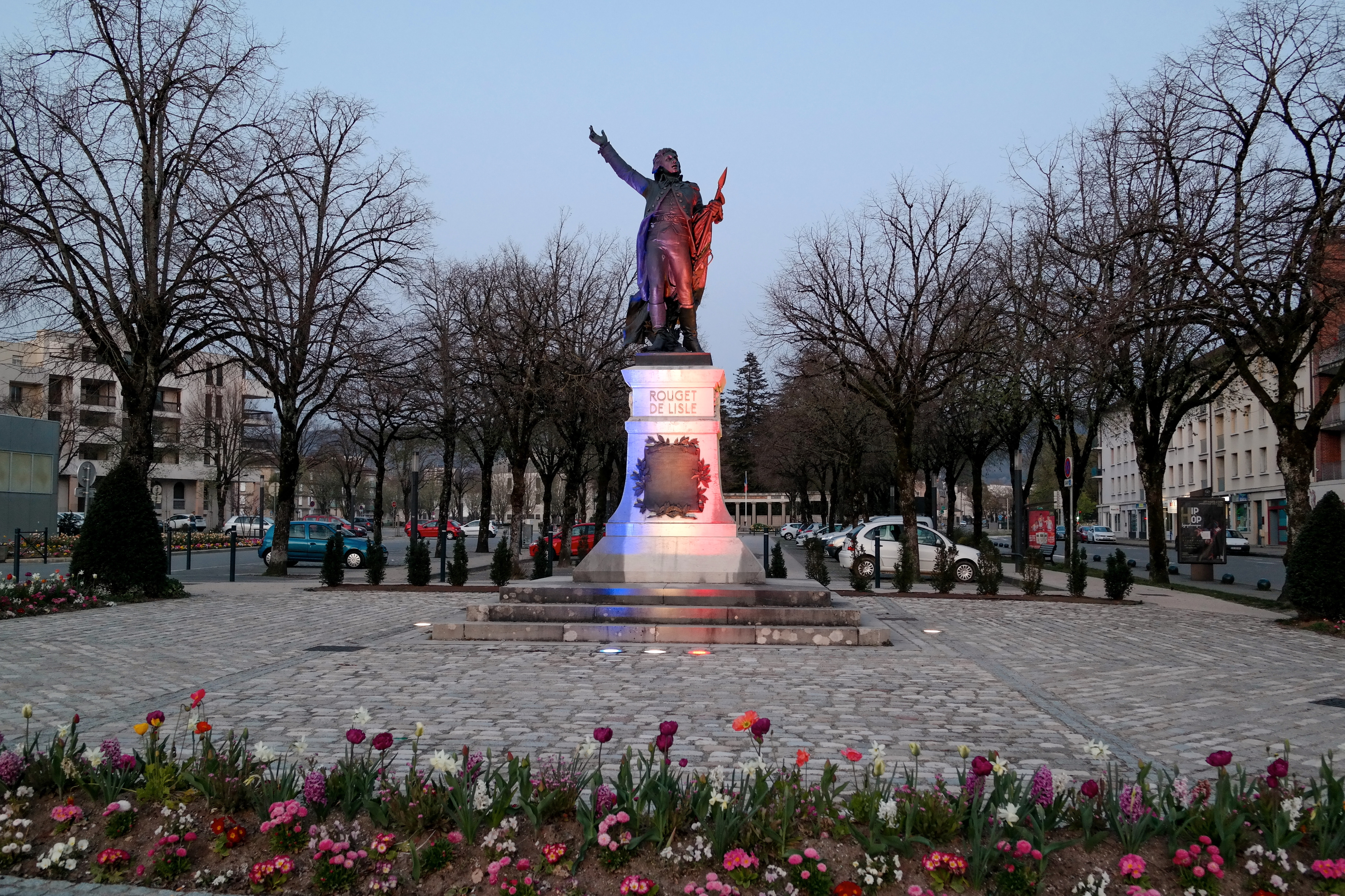 Staut de Rouget-de-Lisle à Lons-le-Saunier